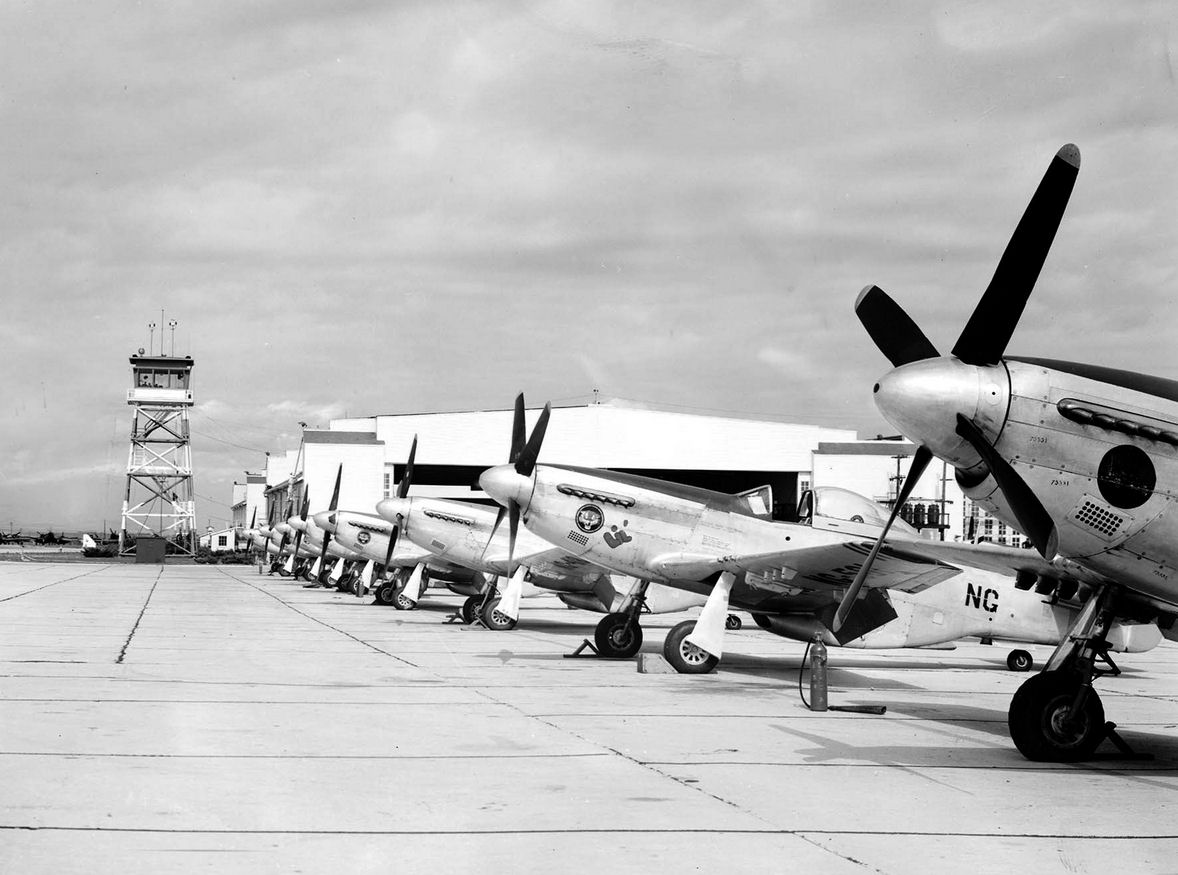 On Nov. 24, 1946, the newly-federally recognized Colorado Air National Guard received a fleet of P-51s for use by the 120th Tactical Fighter Squadron.